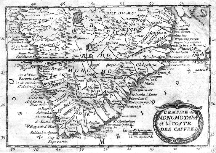 Monomotapa Empire and Coste des Caffres